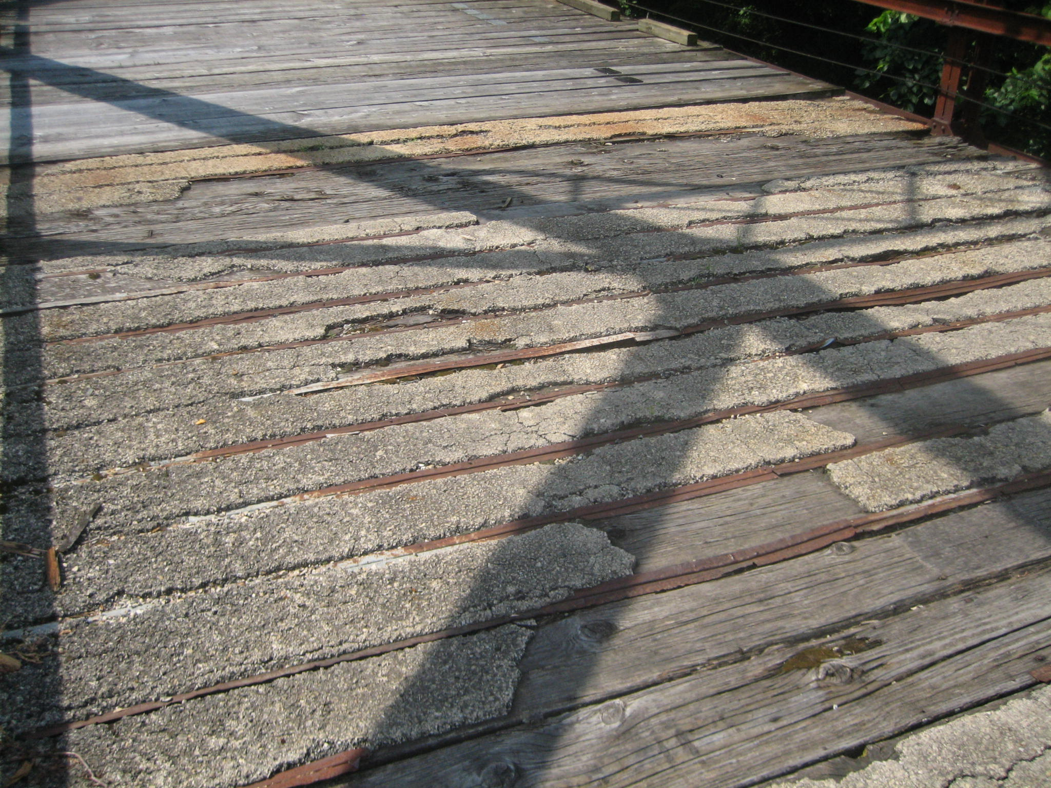 Lyndon Bridge, Lyndon, Illinois. U.S. National Register of Historic Places.